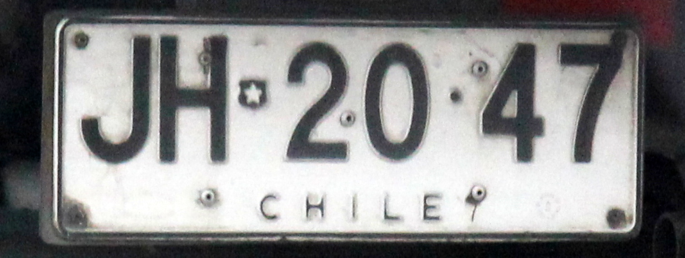 Chilean registration plate: truck trailer